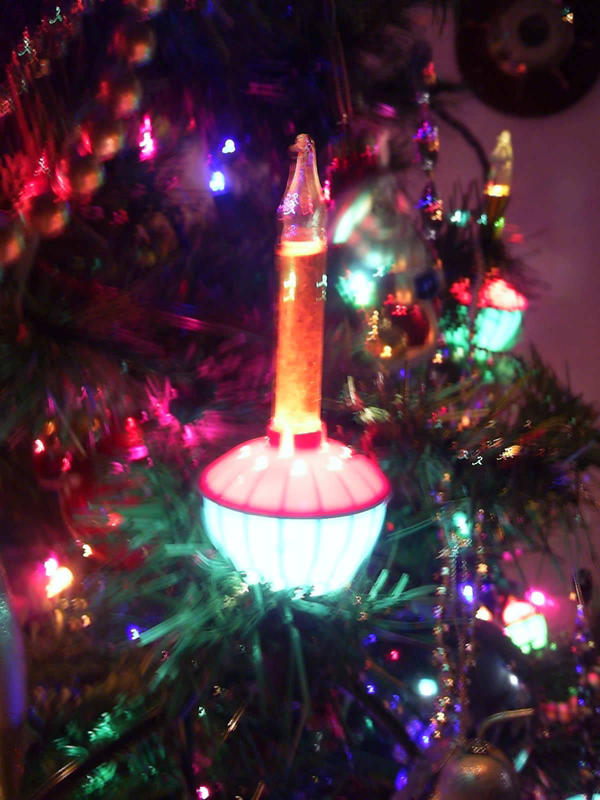 Modern Bubble light